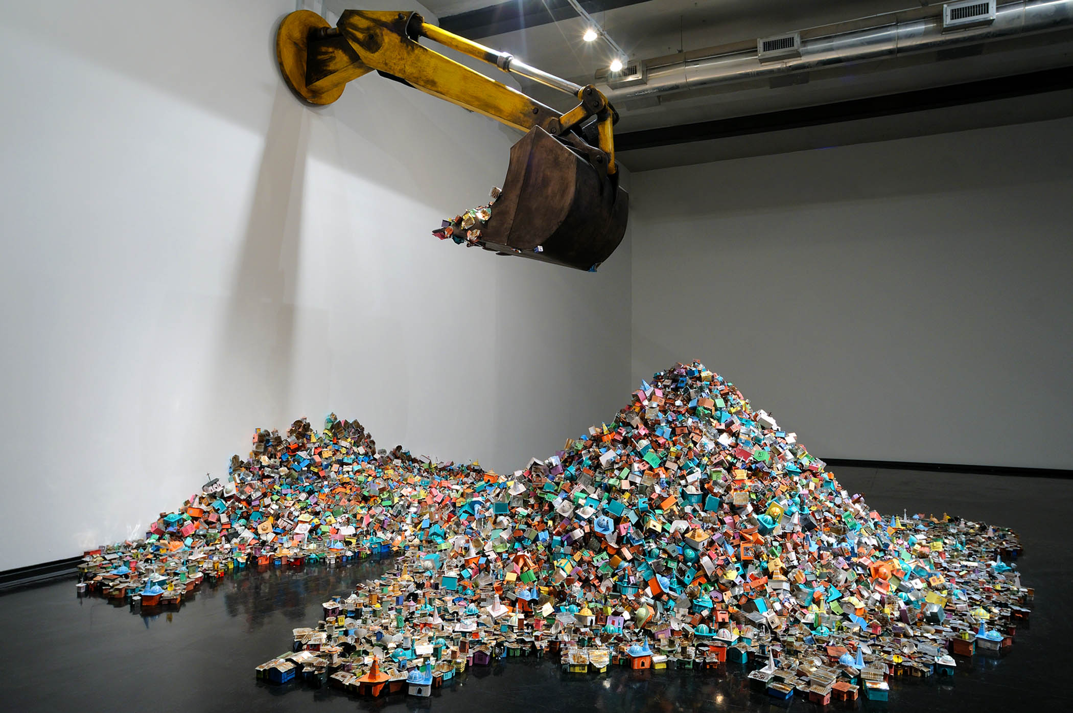 Hema Upadhyay Where the bees suck, there suck I